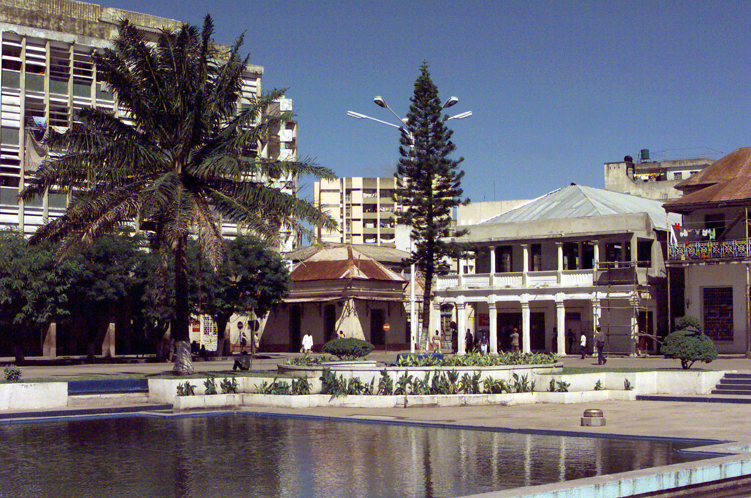 Exterior long shot of Beira, MOZAMBIQUE town center. Beira has an International Airport where U.S. Personnel (Airport and personnel not shown) are flying humanitarian missions while supporting Operation Atlas Response. Location: BEIRA, SOFALA MOZAMBIQUE (MOZ)